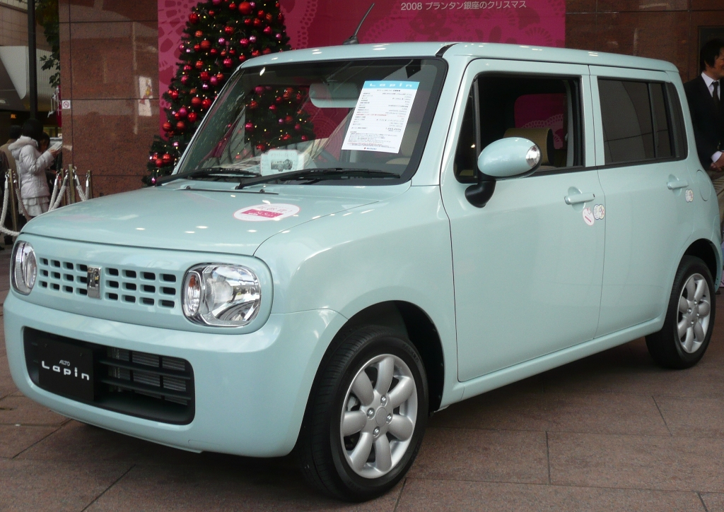 Suzuki Alto Lapin.